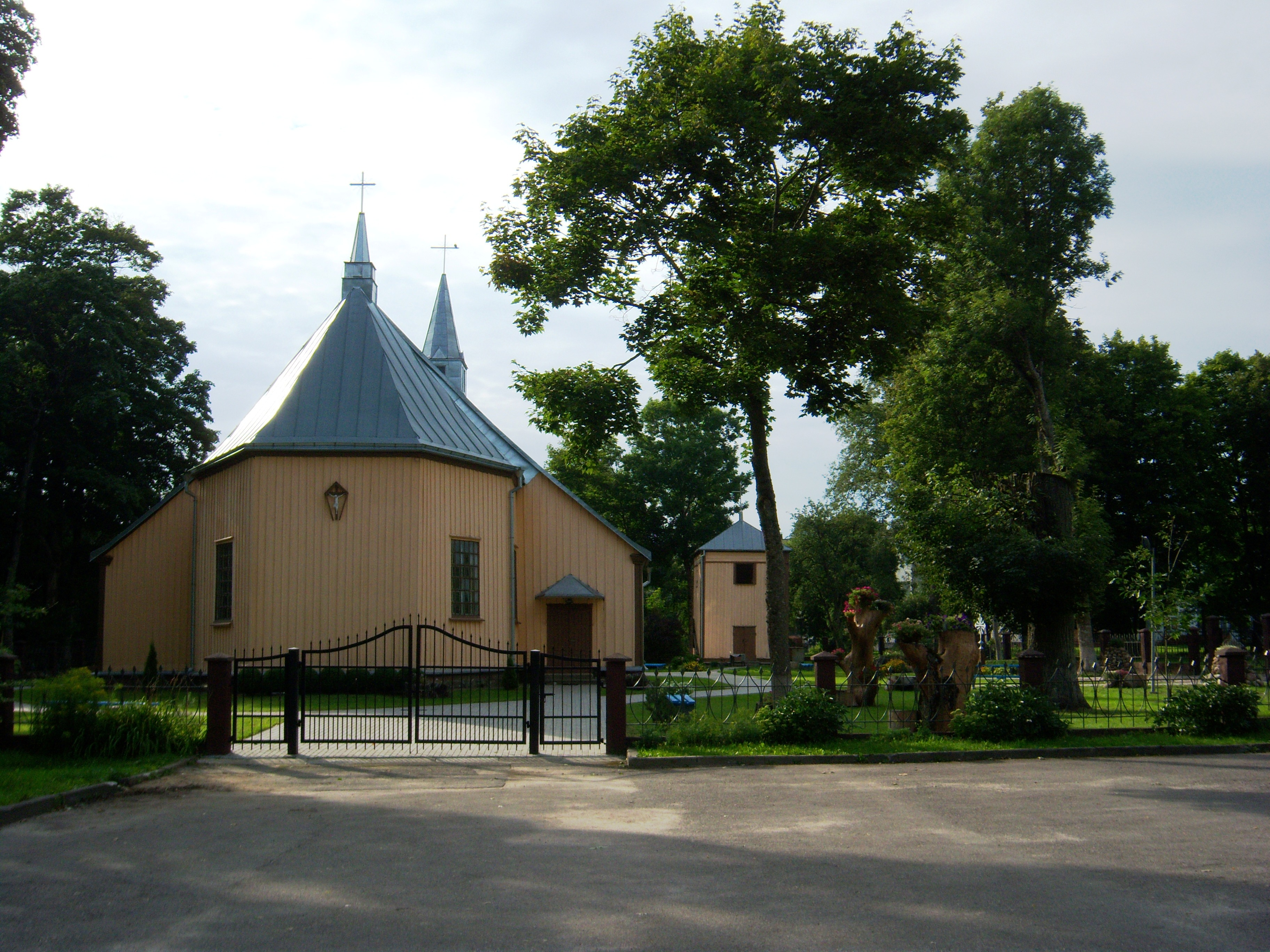 Vėžaičiai Catholic church, Klaipėda District. Lithuania